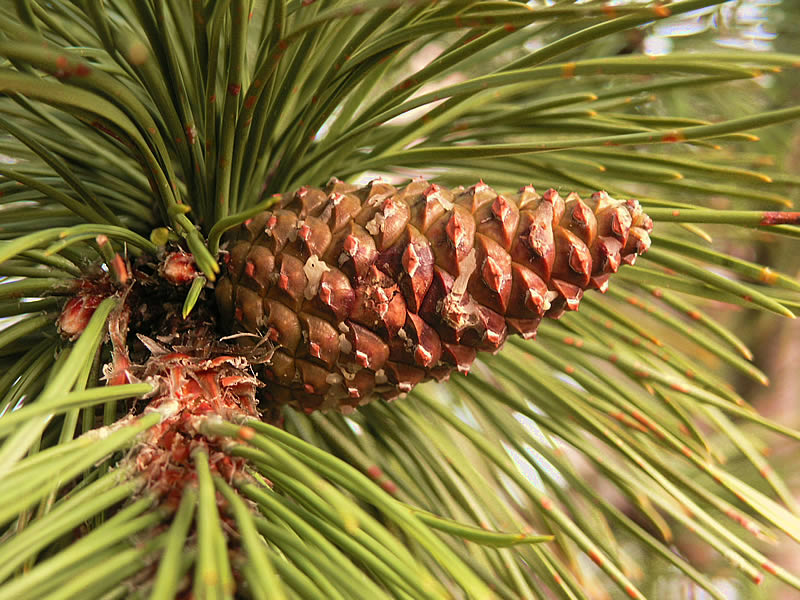 Pinus nigra cone, from the forests surrounding the small town Bad Voeslau (Lower Austria).